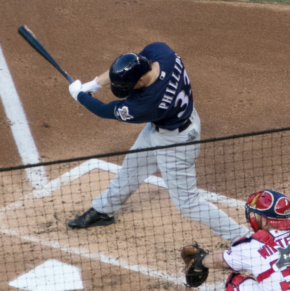 Brett Phillips batting for the Milwaukee Brewers during a 2017 game against the Washington Nationals at Nationals Park in Washington